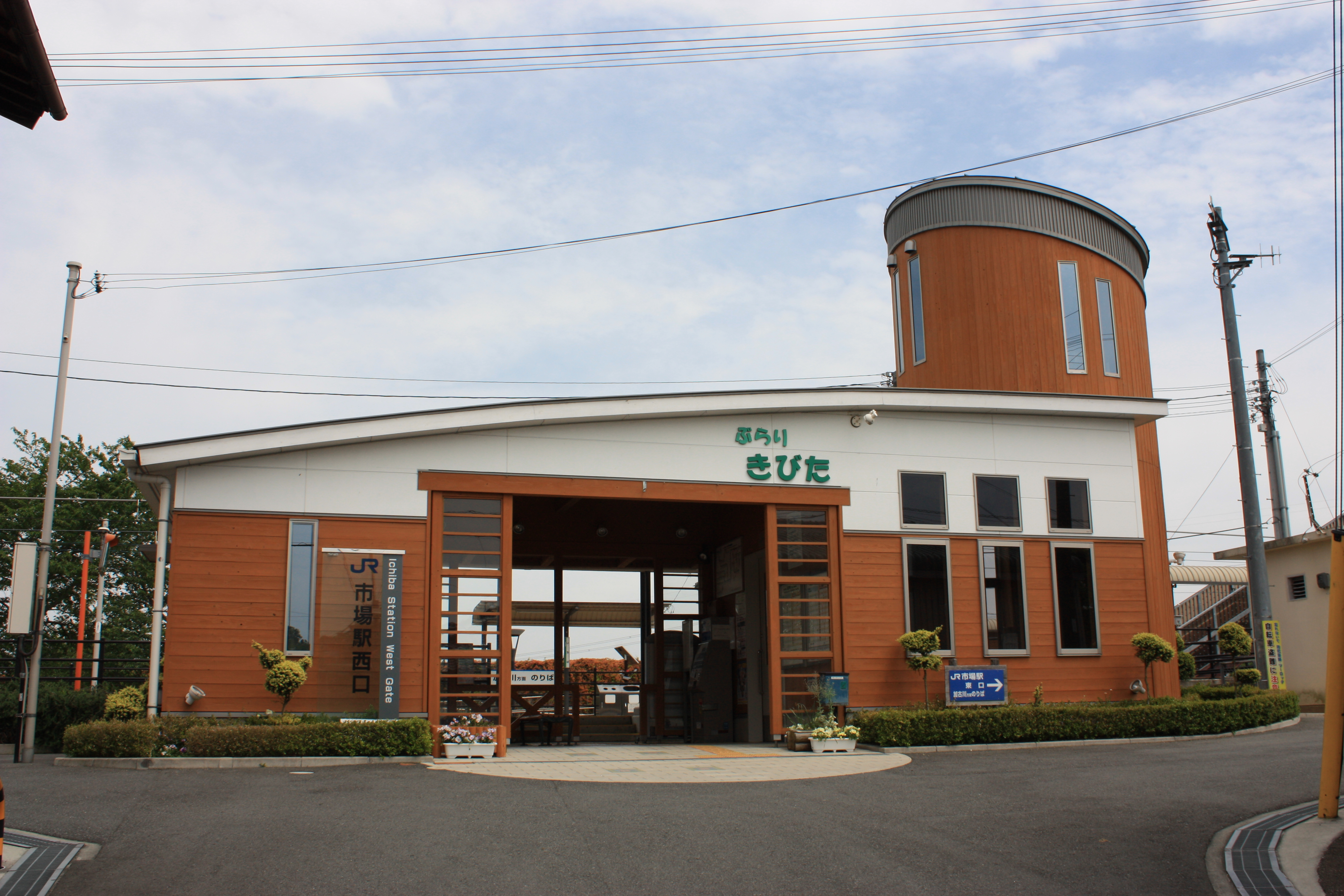 JR West Kakogawa Line Ichiba Station west gate